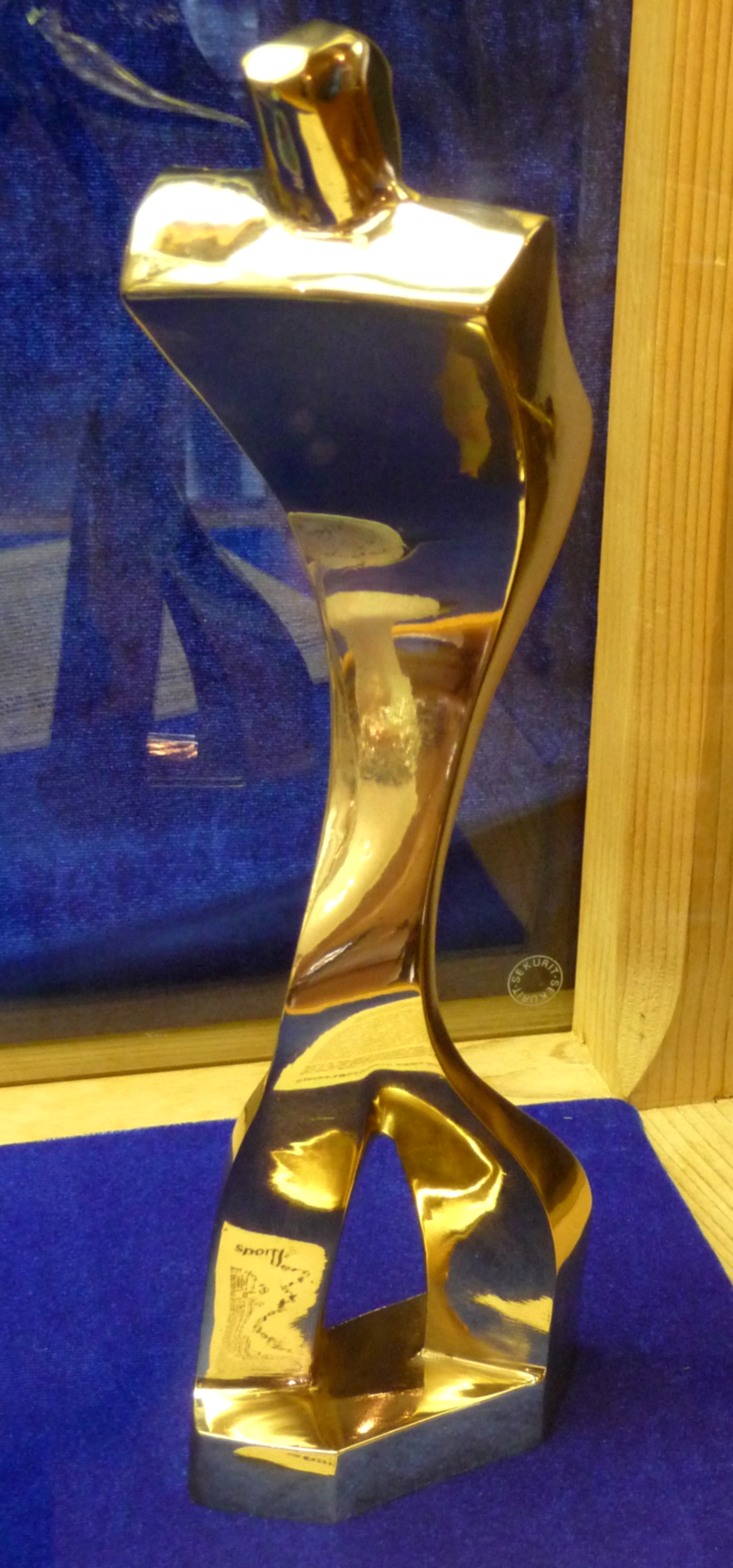 2007 Sportswoman of the Year award of biathlete Magdalena Neuner, temporarily for display at town hall, Wallgau, Germany